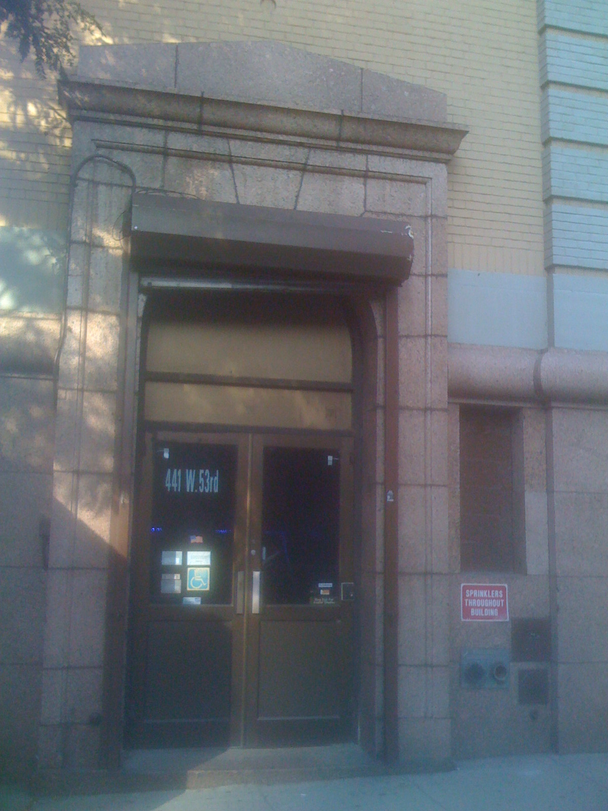 This photo is of Wikis Take Manhattan goal code C3, Avatar Studios.